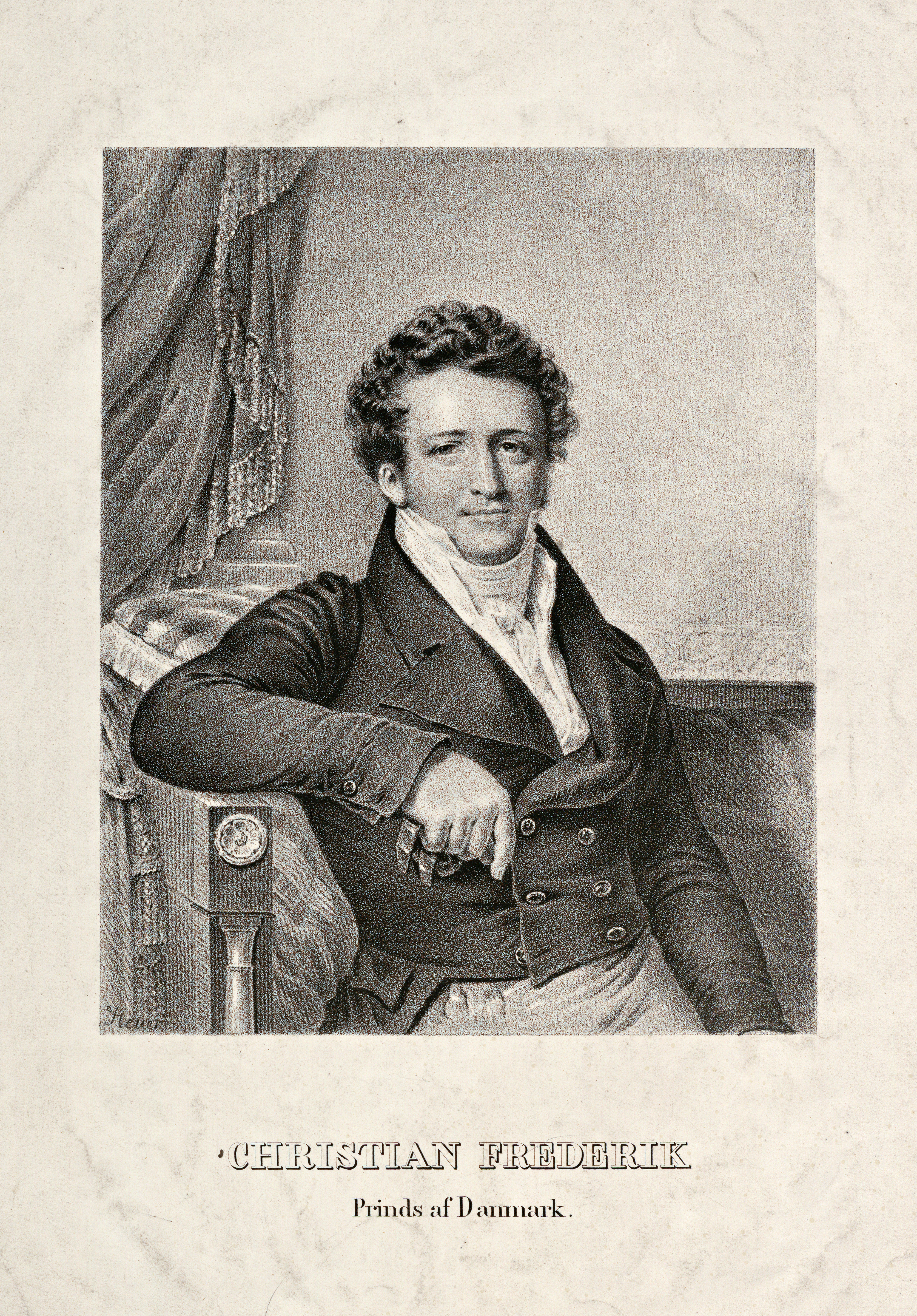 Beskrivelse / Description: Christian Frederik (1786-1848) var konge av Norge 1814 og av Danmark 1839–48. Dato / Date: ukjent / unknown Kreditering / Credit: Heuer Digital kopi av original / Digital copy of original: litografi Eier / Owner Institution: Nasjonalbiblioteket / National Library of Norway Lenke / Link: Bildesignatur / Image Number: blds_06286